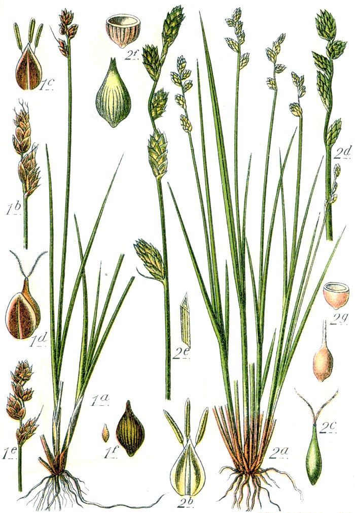 1. Carex heleonastes Ehrh. ex L.f. 2. Carex canescens L. Original Description 1. Torf-Segge, Carex heleonastes 2. Graue Segge, C. canescens